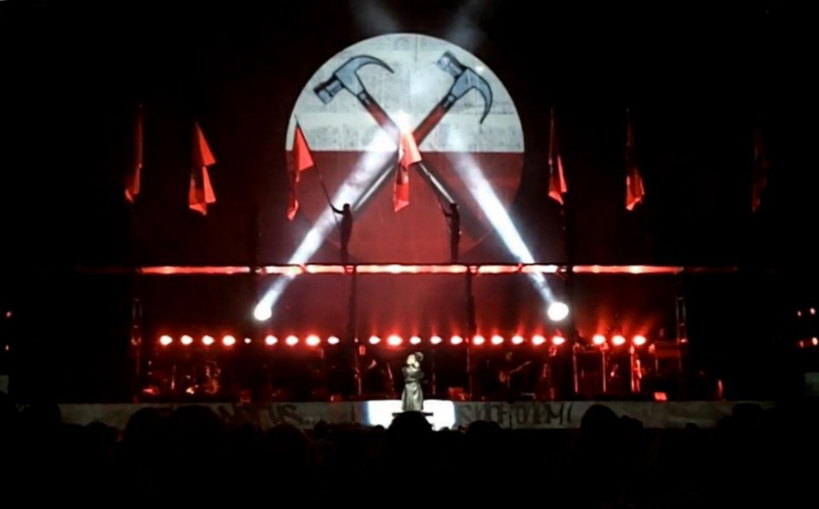 I took this photo from the 25th row, center, using a Kodak Playsport.